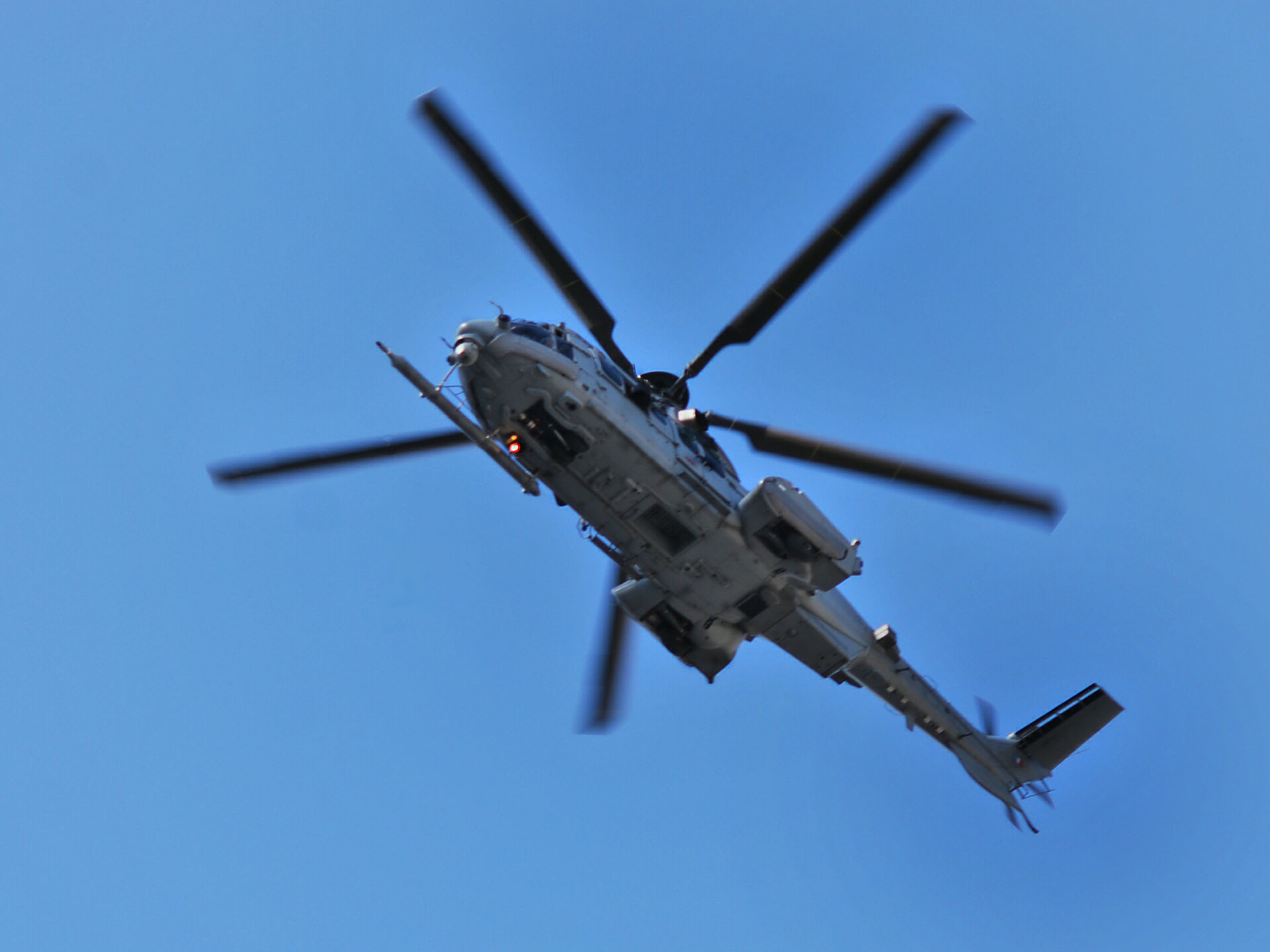 Photo of a EC-725 Caracal ( Eurocopter corp.) during the Défilé du 14 juillet (2008) Paris, France